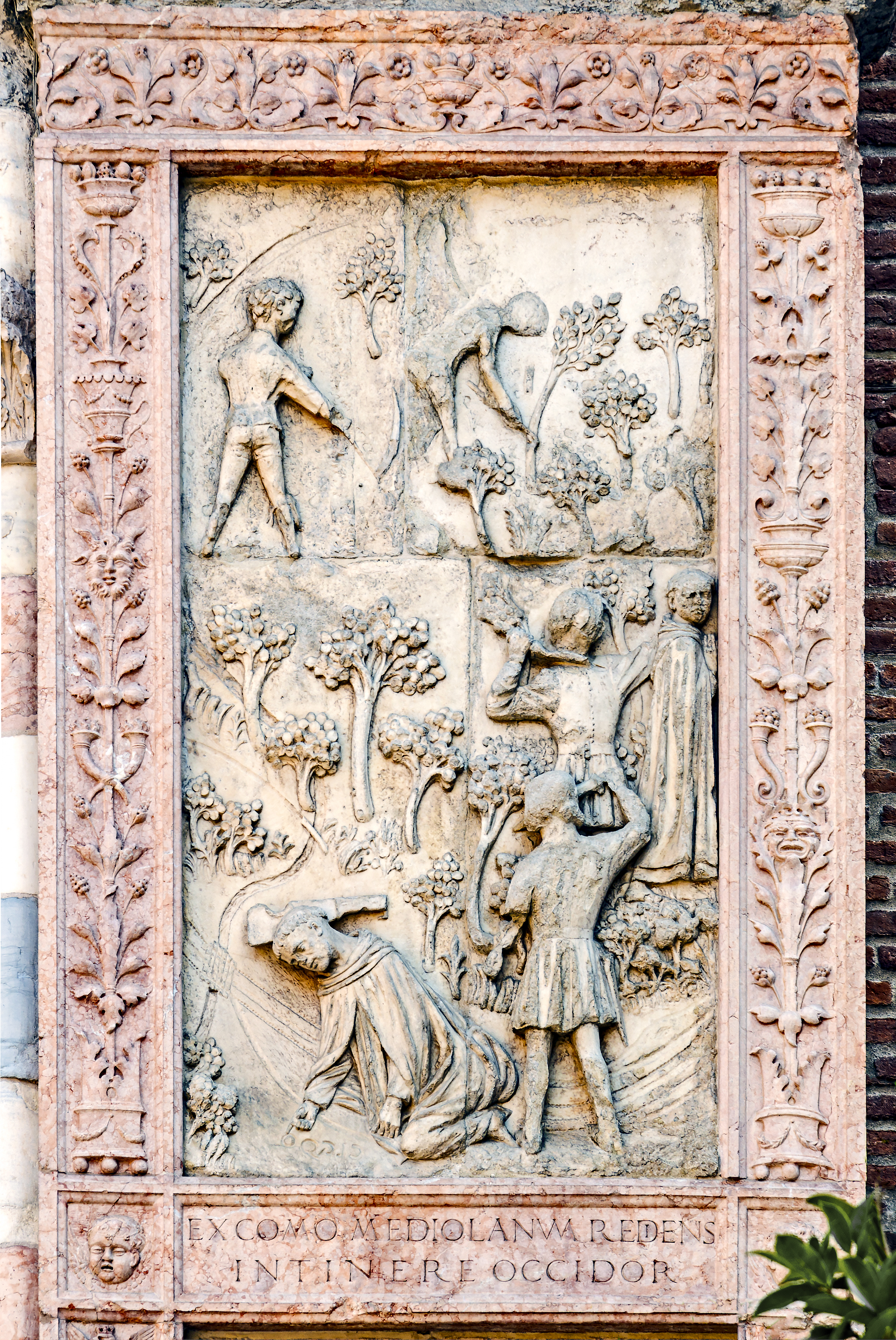 Façade of the Basilica Santa Anastasia Piazza Sant'Anastasia in Verona. Bas-relief with martyrdom of saint Peter of Verona.